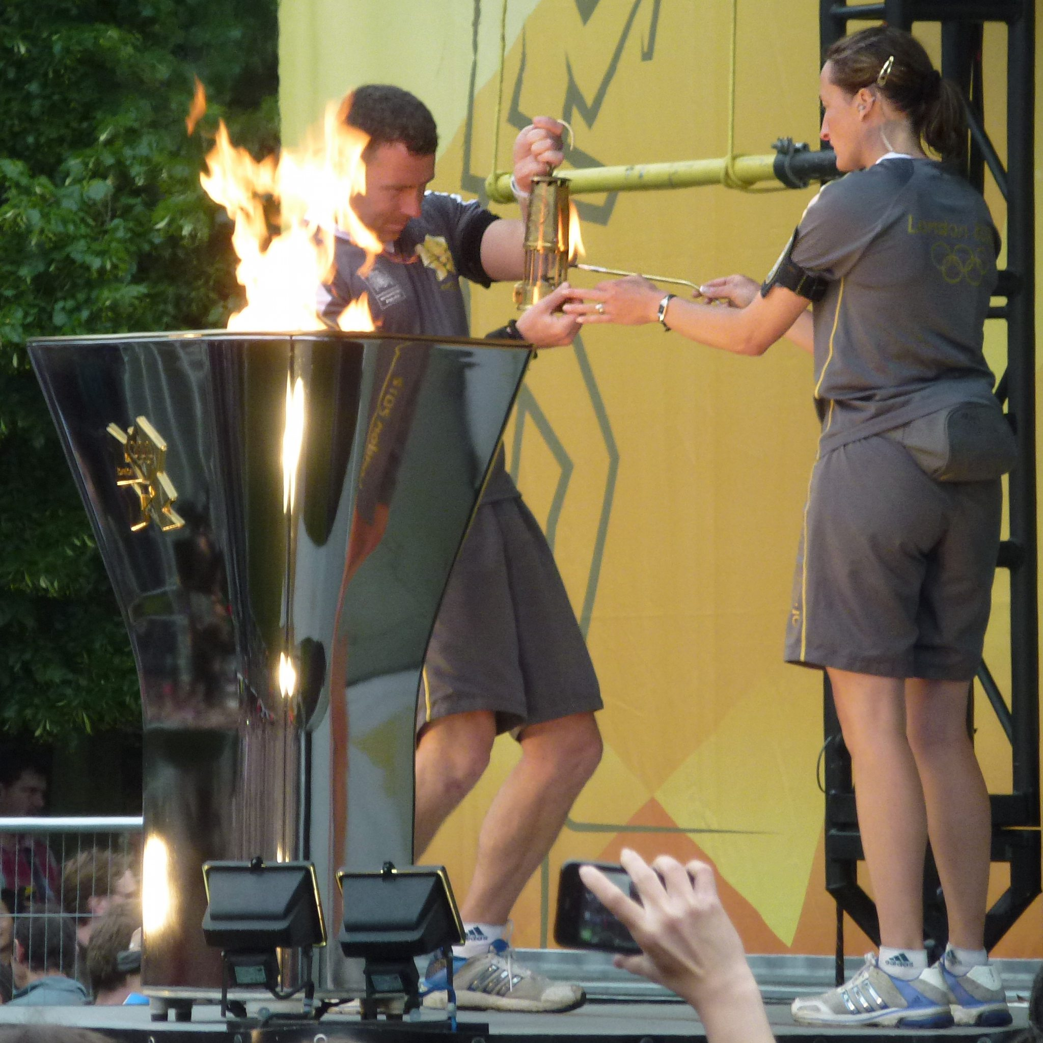 The Olympic flame being transferred into a lantern for ceremonious safe-keeping overnight during the Cambridge leg of the 2012 Summer Olympics torch relay.